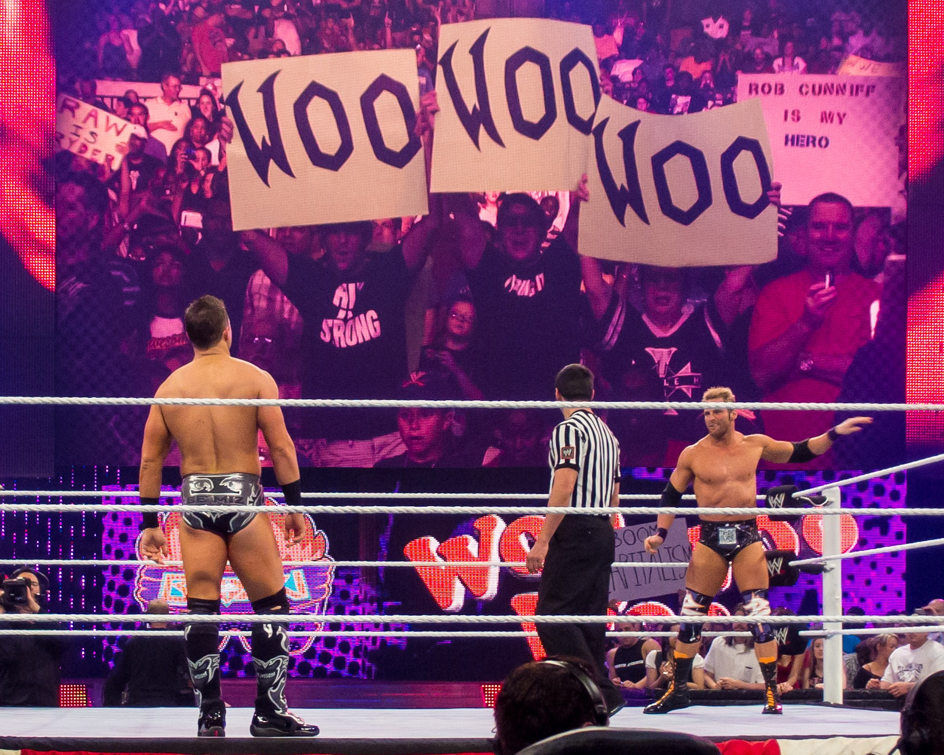 Zack Ryder, a fan favourite, faces the Miz at the WWE Raw tapings on 2 April 2012.